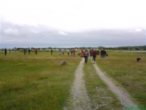 Picture of birdwatchers searching for a rare bird at Högby hamn, Öland, Sweden